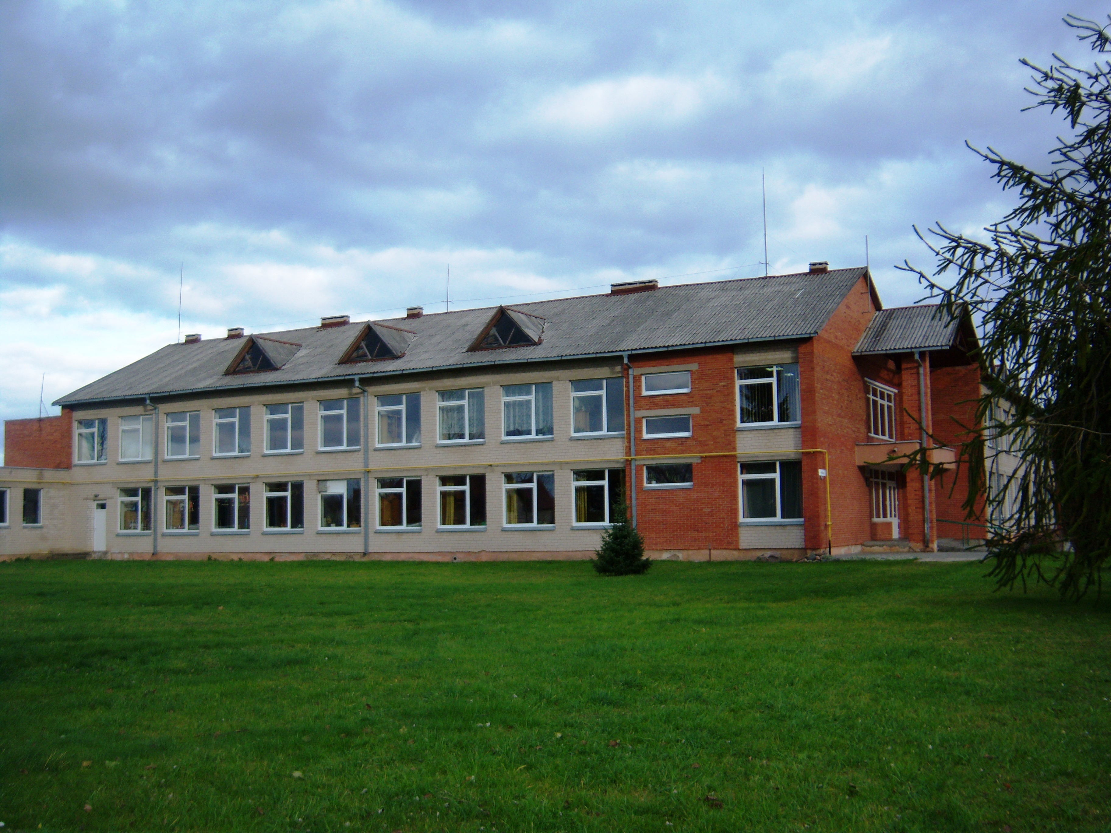 Berčiūnai school, Panevėžys District, Lithuania